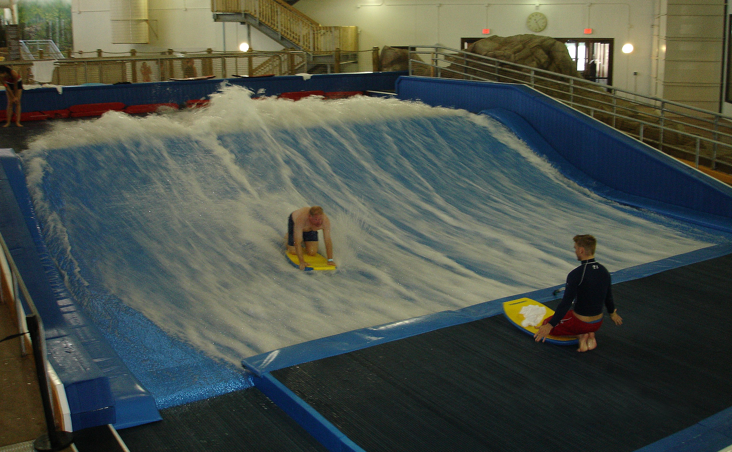 This is a picture of the Flow Rider at the Water Park of America taken while on vacation in August of 2006.